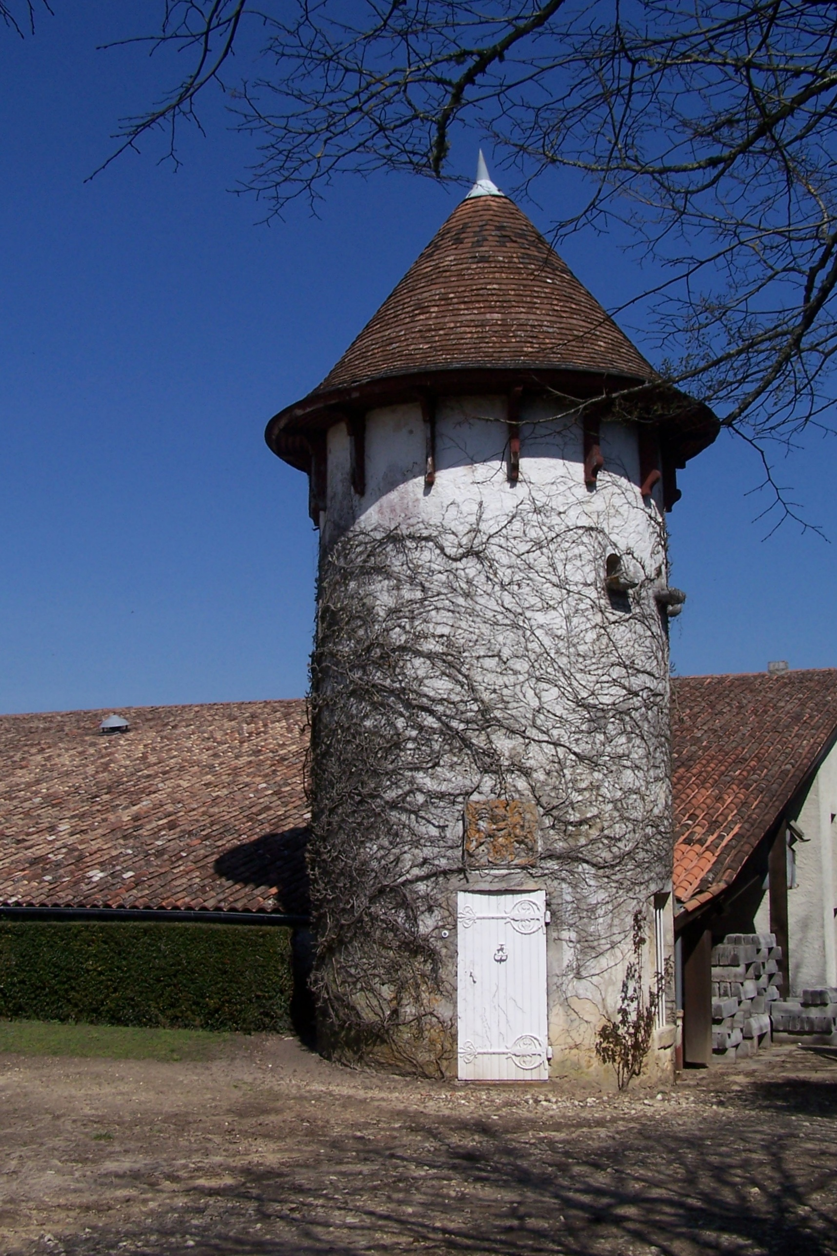 Château de Rayne-Vigneau in Bommes (Gironde, France)